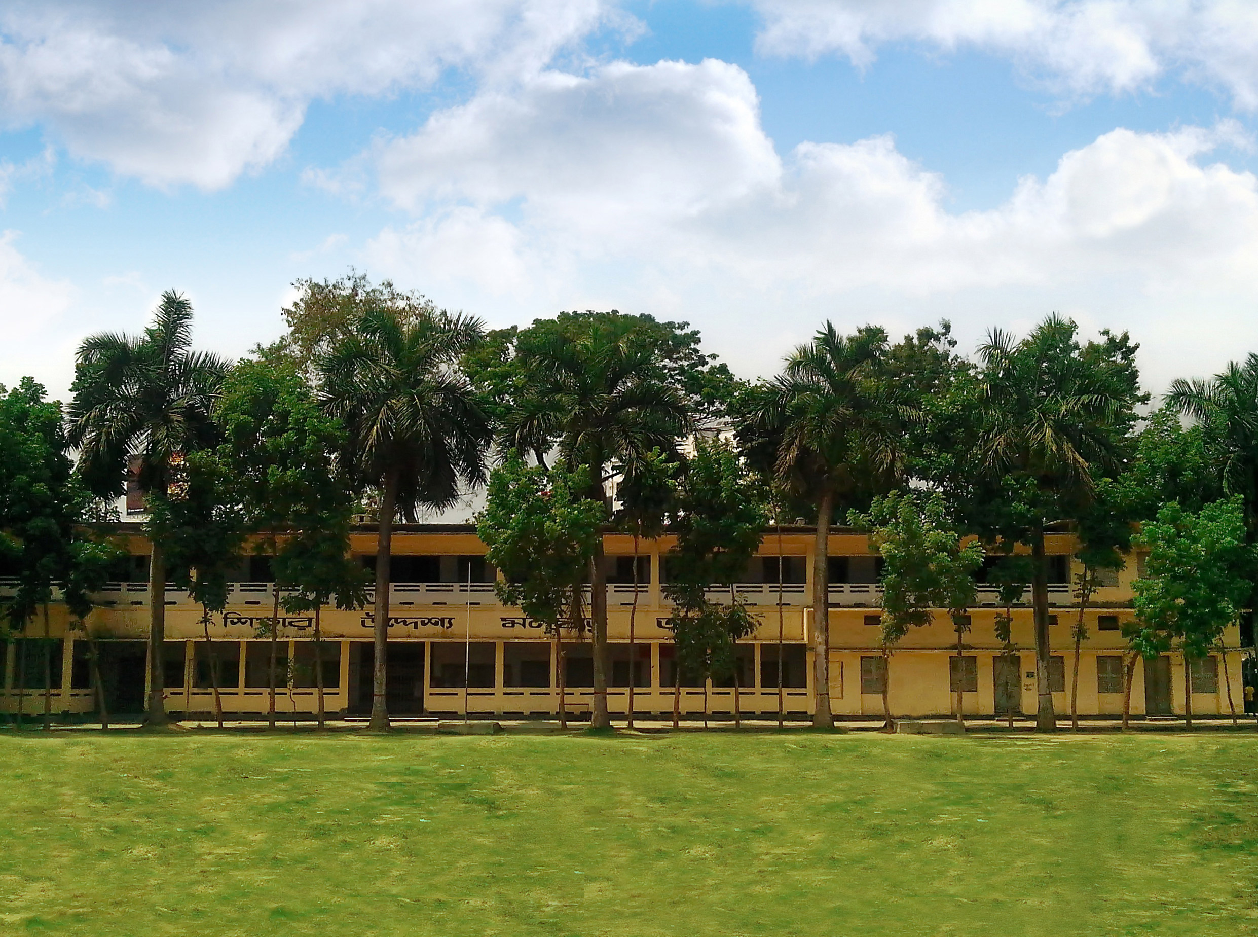 The Main Building of Bogra Zilla School